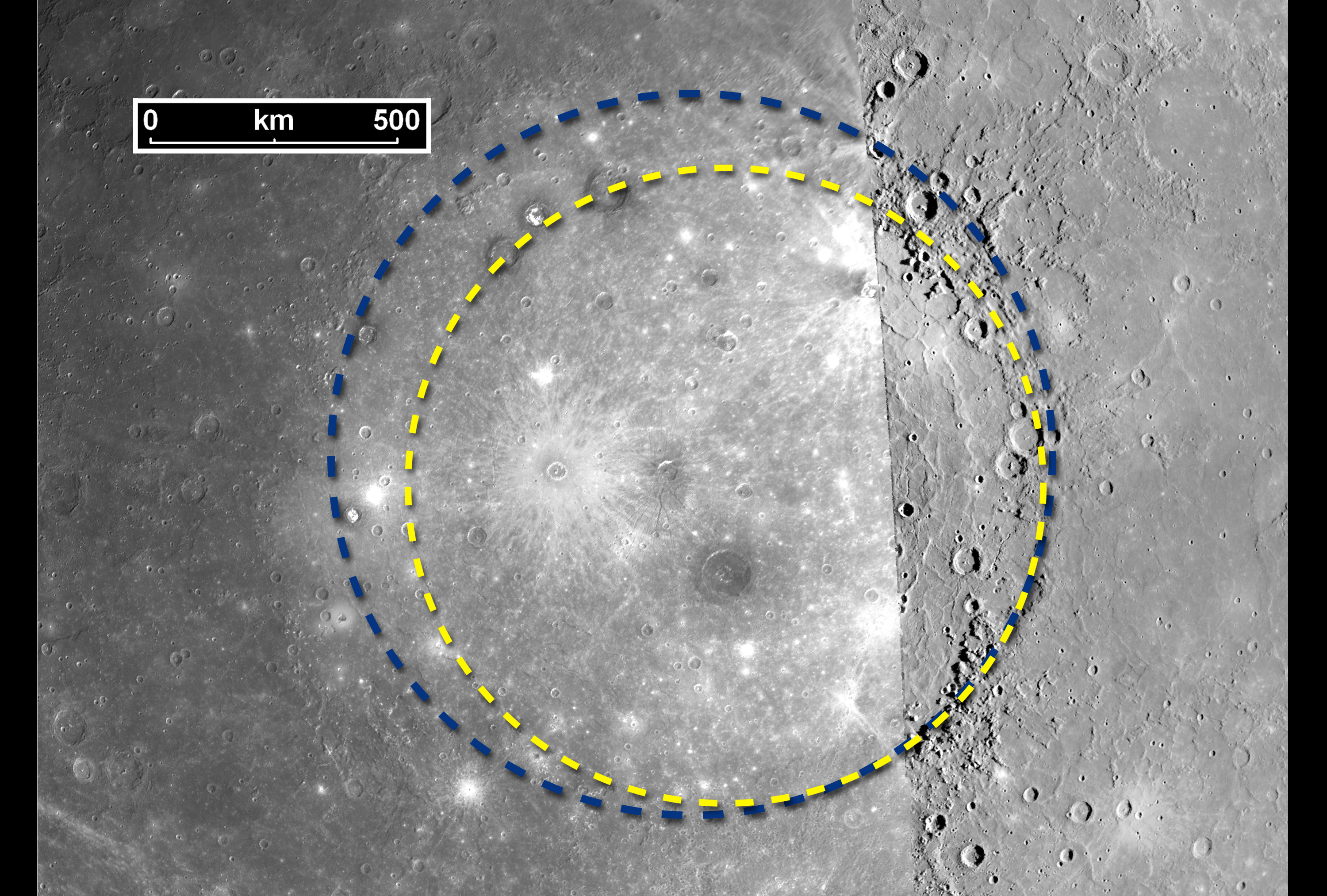 This image shows details of the Caloris basin, one of the largest impact basins in the solar system. Caloris was discovered in 1974 from the Mariner 10 images, but when Mariner 10 flew by Mercury, only the eastern half of the basin was in daylight. During its first flyby of Mercury, on January 14, 2008, the MESSENGER spacecraft was able to snap the first high-resolution images of the western half of the basin. This image is a compilation of pictures from the Mariner 10 mission (right portion of the image) and images from MESSENGER's Narrow Angle Camera (NAC), part of the Mercury Dual Imaging System (left portion of the image). When Mariner 10 imaged the Caloris basin, the lighting conditions were very different from those experienced by MESSENGER, as is evidenced by the visible seam created when images from both missions are mosaicked together. Despite the different lighting conditions, the MESSENGER images show that the Caloris basin is even larger than previously believed. On the basis of images from Mariner 10, the rim of the Caloris structure was estimated at about 1300 km (about 800 miles) in diameter, shown as a yellow dotted line in this image. MESSENGER's images, which allow the entire Caloris basin to be seen at high-resolution for the first time, indicate that the basin rim, shown as a blue dotted line in the image, is actually closer to 1550 kilometers (about 960 miles) in diameter. Understanding the formation of this giant basin will provide insight into the early history of major impacts in the inner Solar System, with implications not just for Mercury, but for all the planets, including Earth.